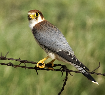 Red-necked or Red-headed Falcon (Falco chicquera) photographed at Tal Chhapar, District Churu, Rajasthan.